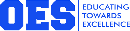 Oriental Education Society Logo